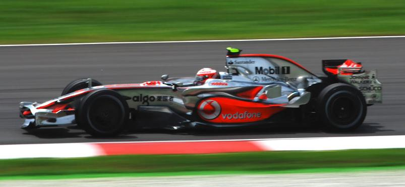 Heikki Kovalainen driving for McLaren at the 2008 Malaysian Grand Prix.